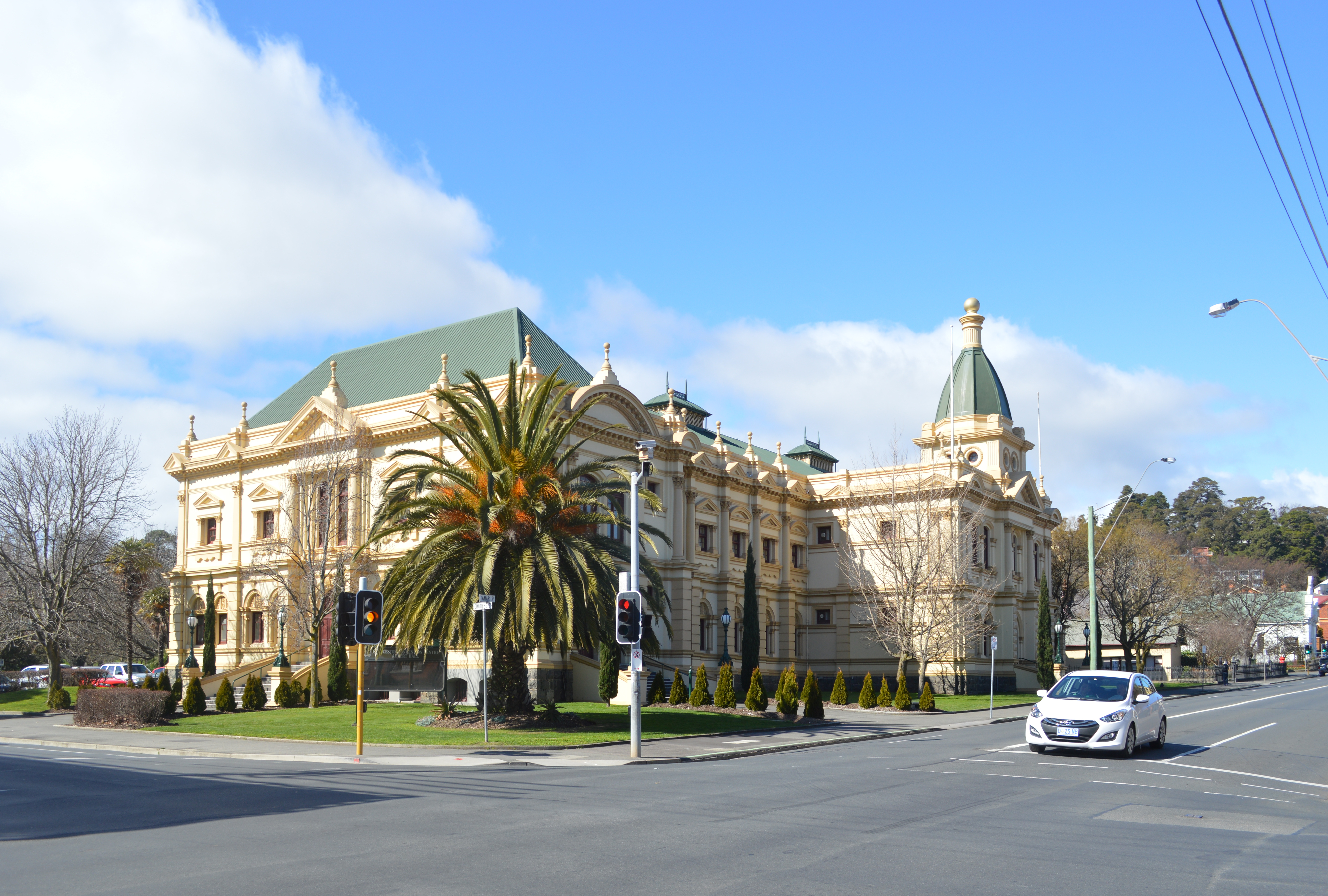 Albert Hall in Launceston, Tasmania